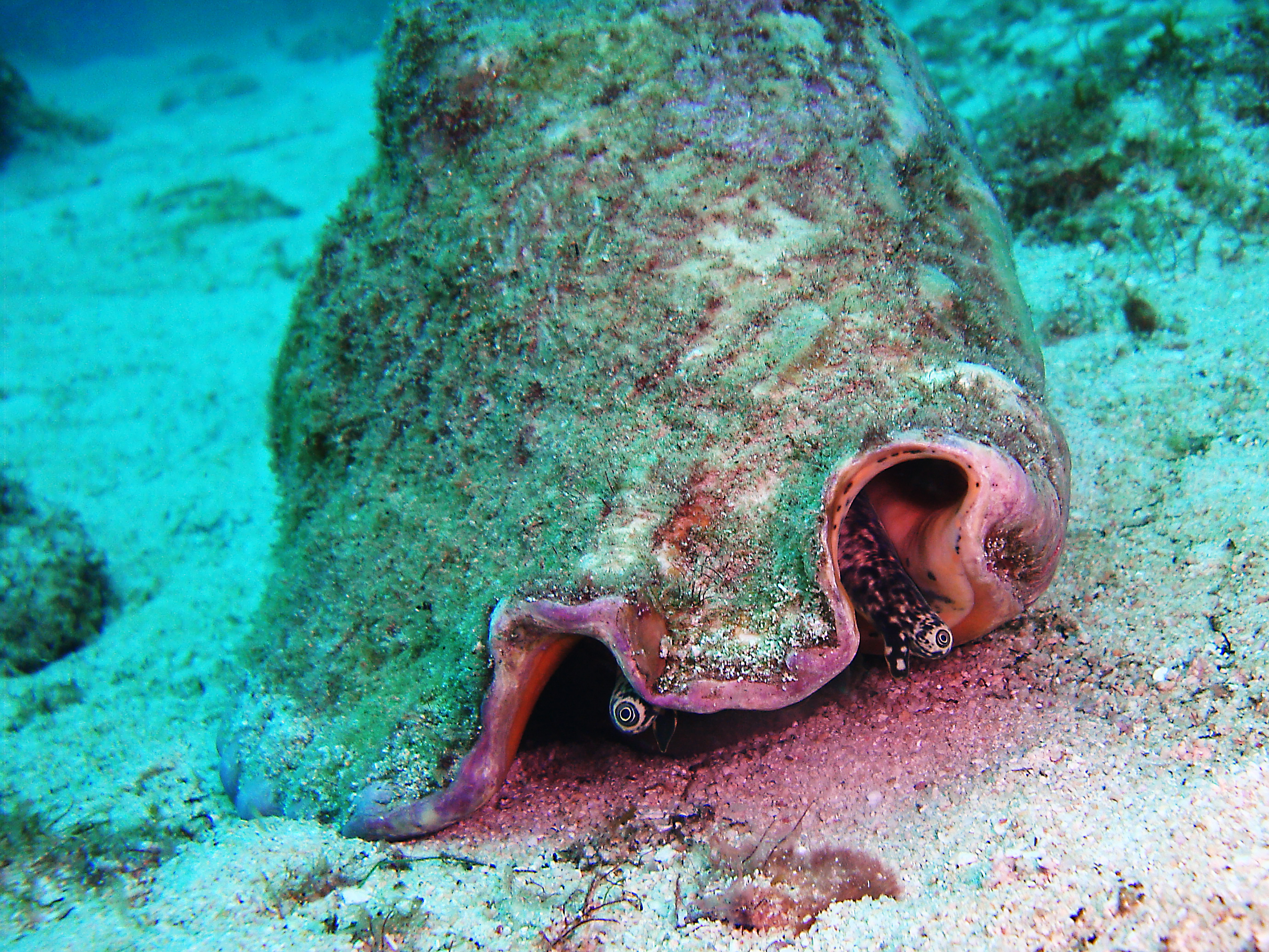 Living Strombus gigas